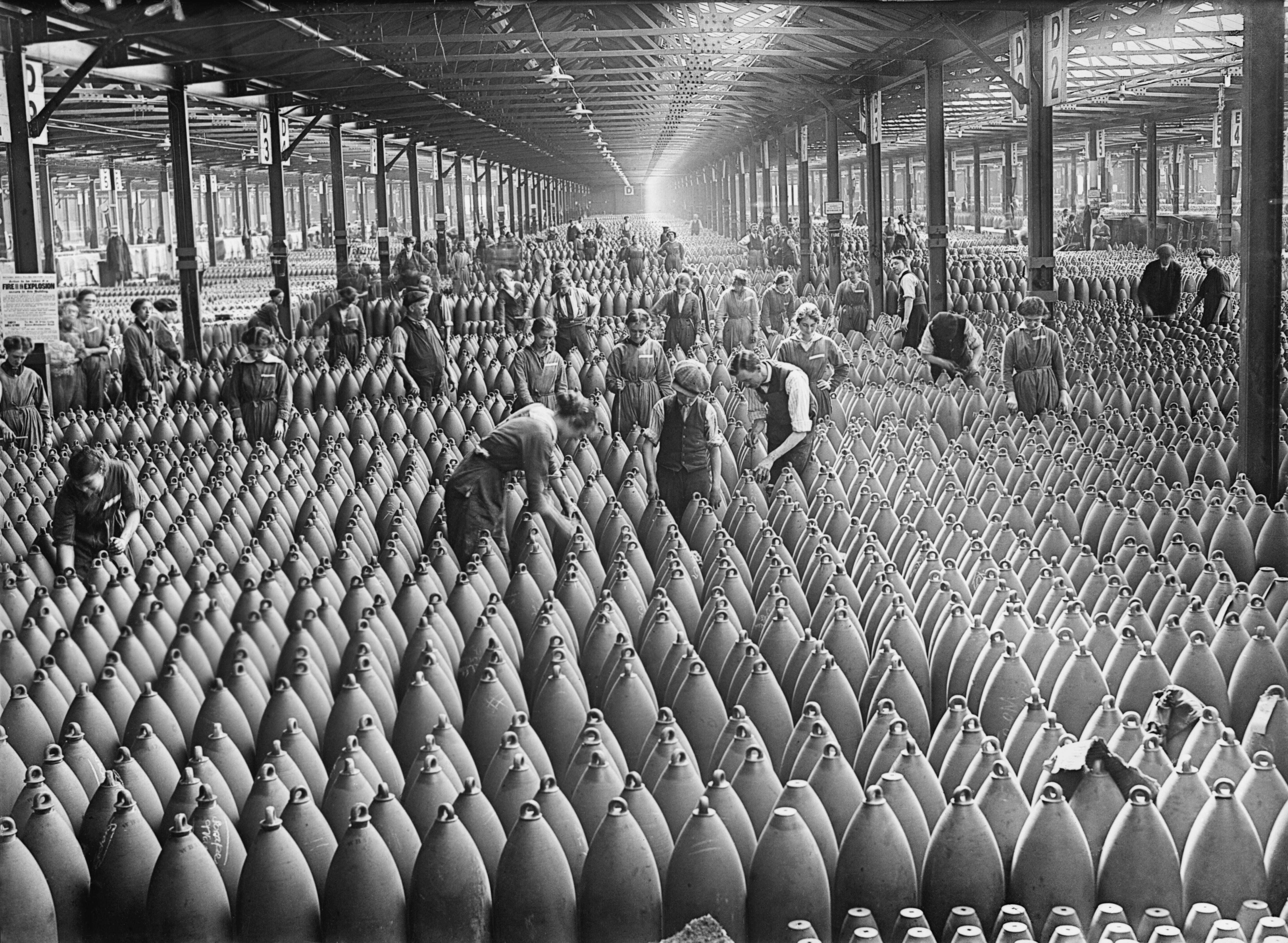 Munitions Production on the Home Front, 1914-1918 A general scene showing workers, both male and female, amid rows and rows of shells in a large warehouse at the National Filling Factory, Chilwell.